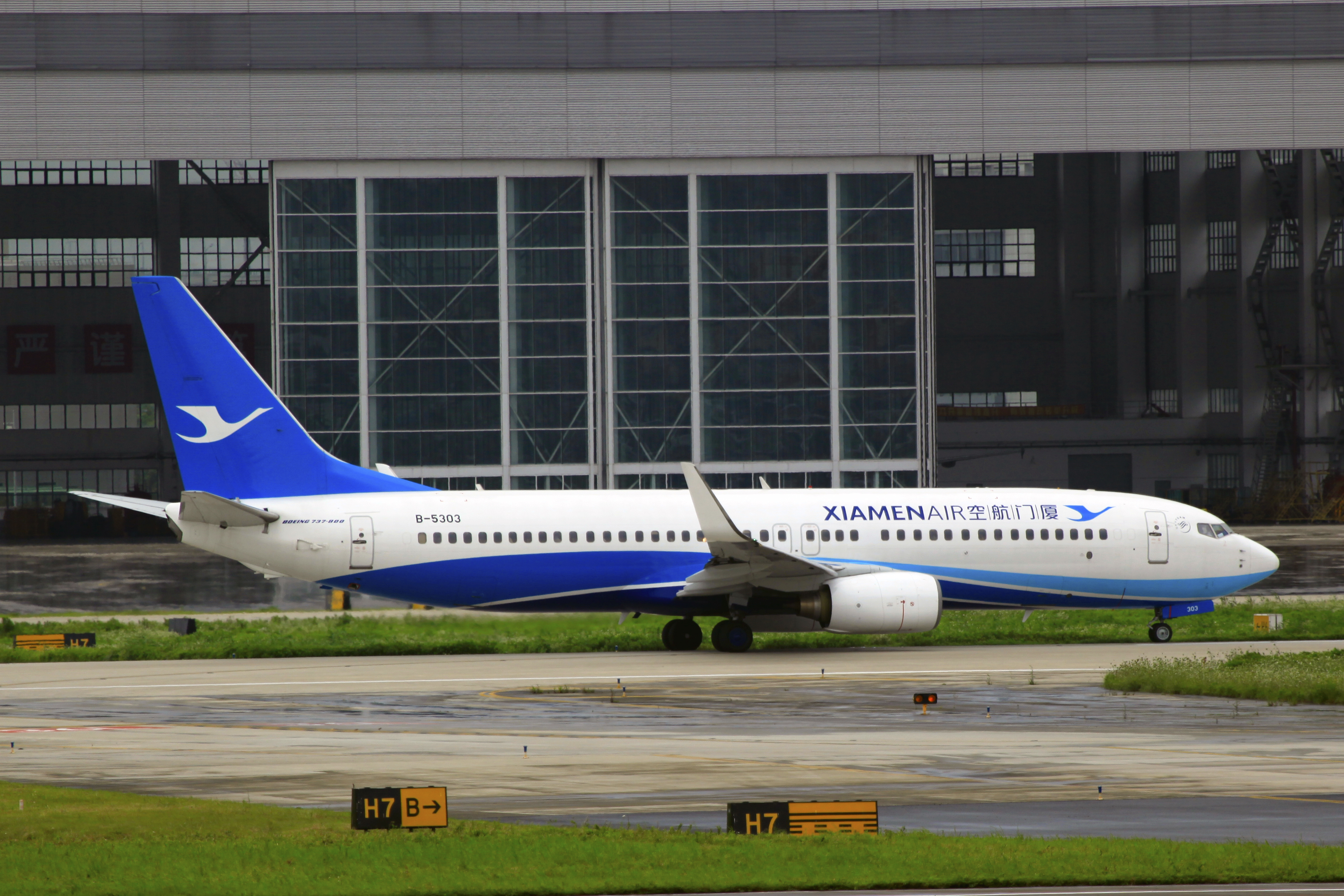 B-5303 | Xiamen Airlines | Boeing 737-85C(WL) | Shanghai Hongqiao International Airport [SHA]